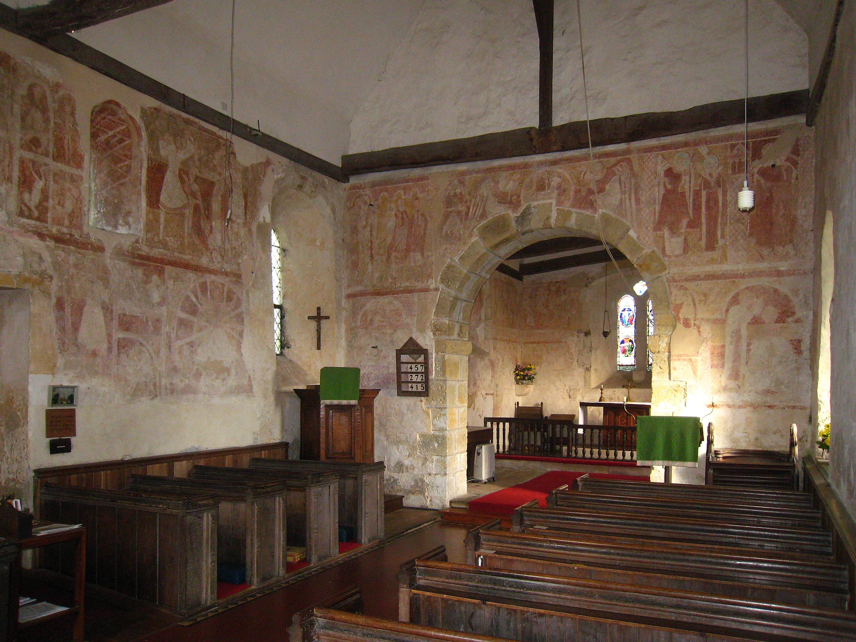 St Botolph's church, Hardham, West Sussex, England. Interior looking east, showing some of the 12th century wall paintings. Wikidata has entry Q17529124 with data related to this item.